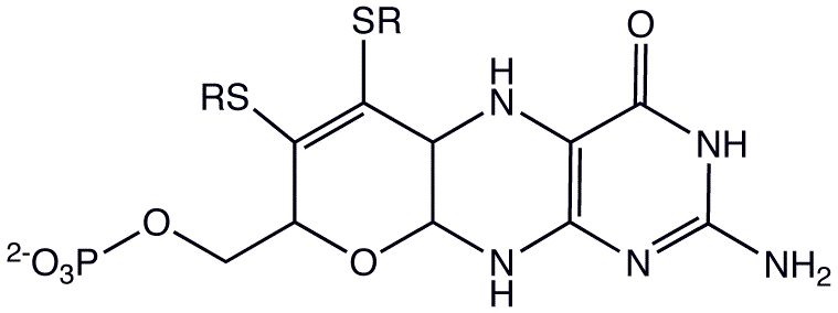 structure of molybdopterin